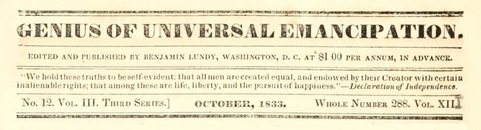 Nameplate (logo) from an 1833 issue of the abolitionist newspaper Genius of Universal Emancipation